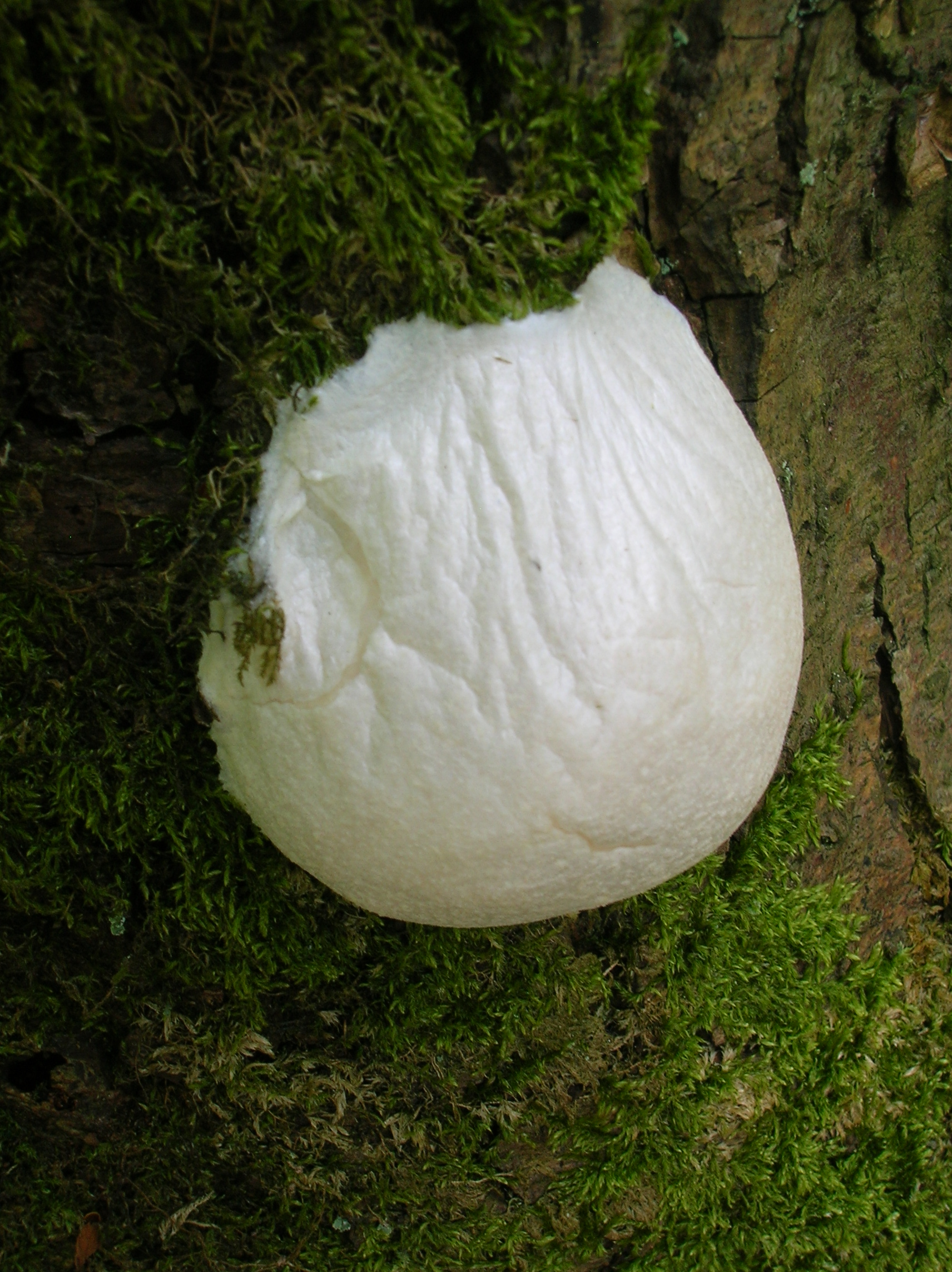 The slime mould Enteridium lycoperdon, (Bull.) M.L. Farr, 1976 at Spier's Old School Grounds on an alder. Beith, Ayrshire, Scotland.